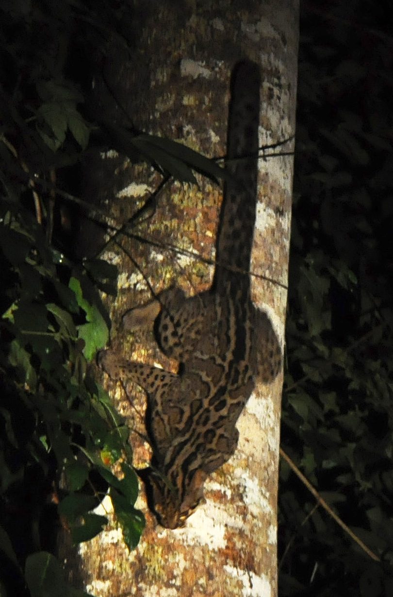 Photo of a Marbled cat (Pardofelis marmorata) we spotted in Danum Valley Conservation Area, Borneo. Extremely rare cat. has brown yellowish eyes. (One of the photos I got of this Marbled cat (Pardofelis marmorata) in Danum valley).